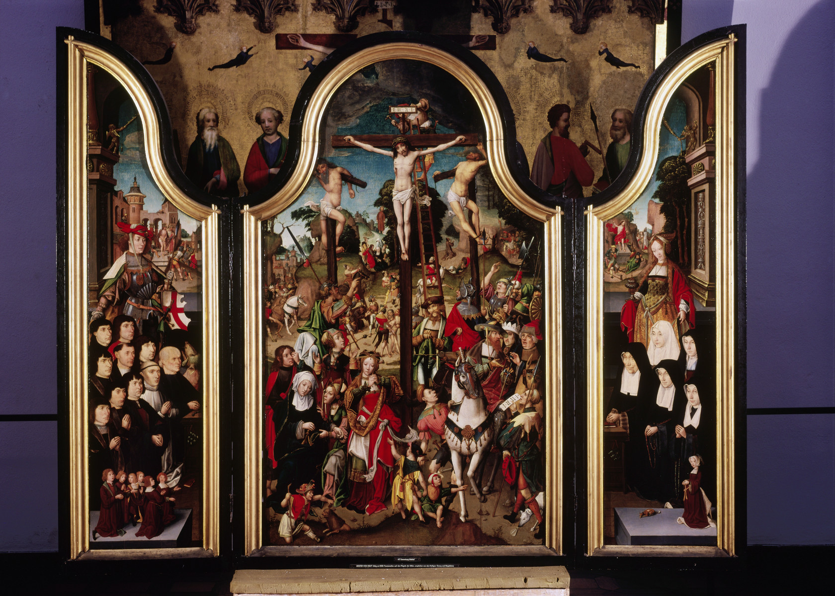 Maître de Delft Crucifixion - Wallraf Museum - ouvert